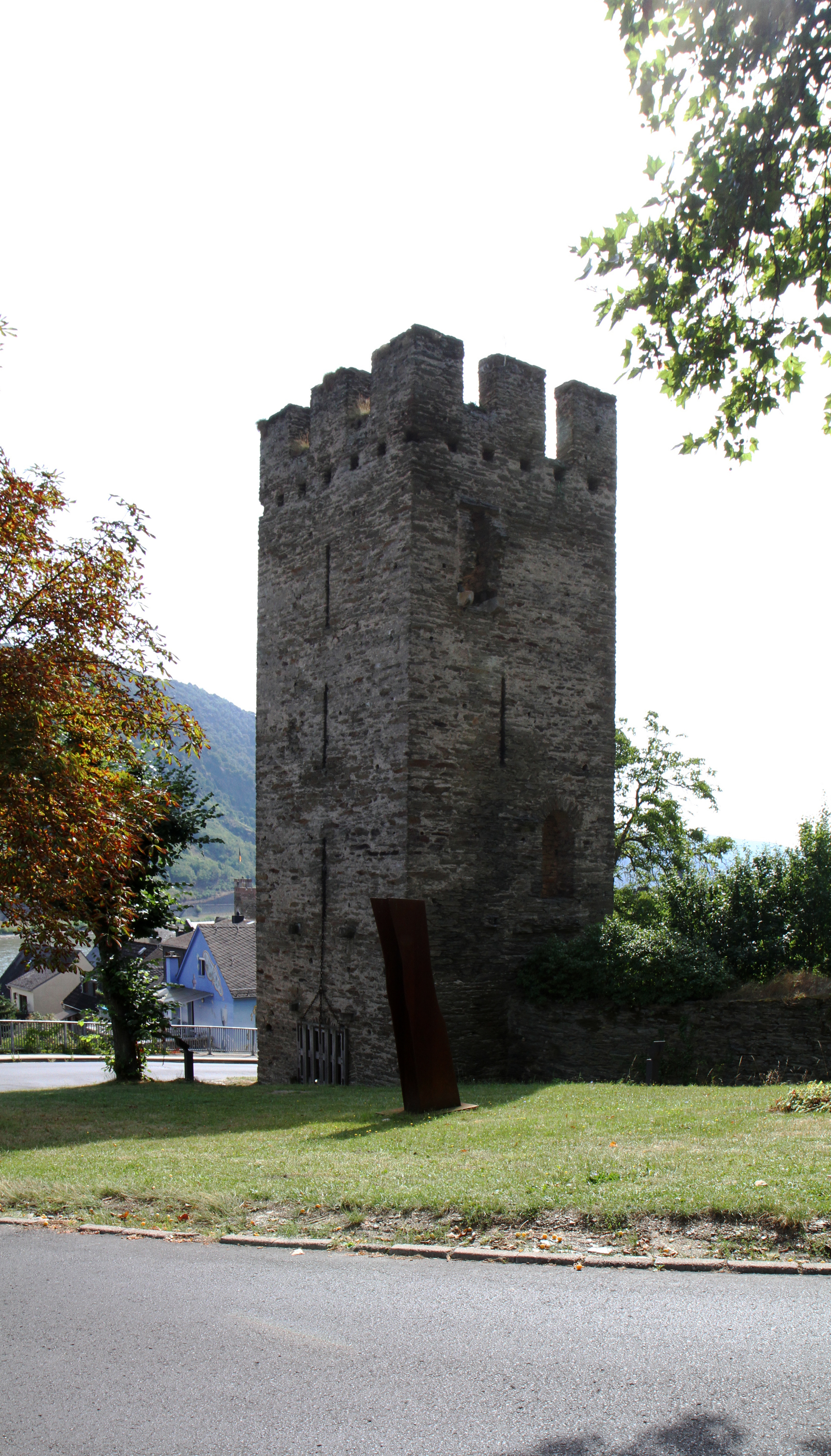 Medieval defensive wall of Oberwesel, Rhine, Germany. The photograph shows Koblenzer Tower, uphill side City in north.